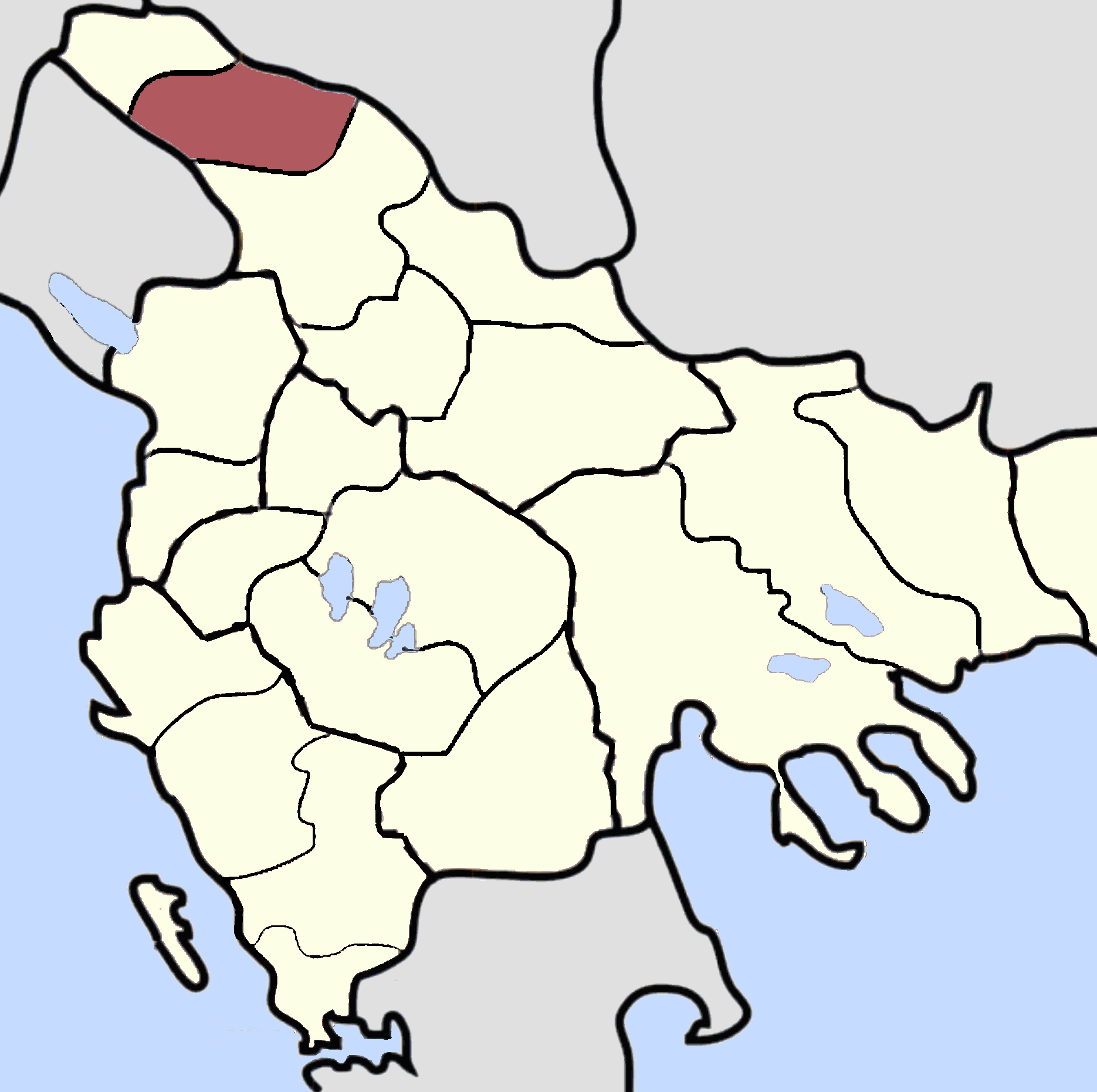 XY Sanjak, Ottoman Empire (late 19th century). Source: The Crescent and the Eagle- Ottoman Rule, Islam and the Albanians, 1874-1913 at Google Books By George Gawrych